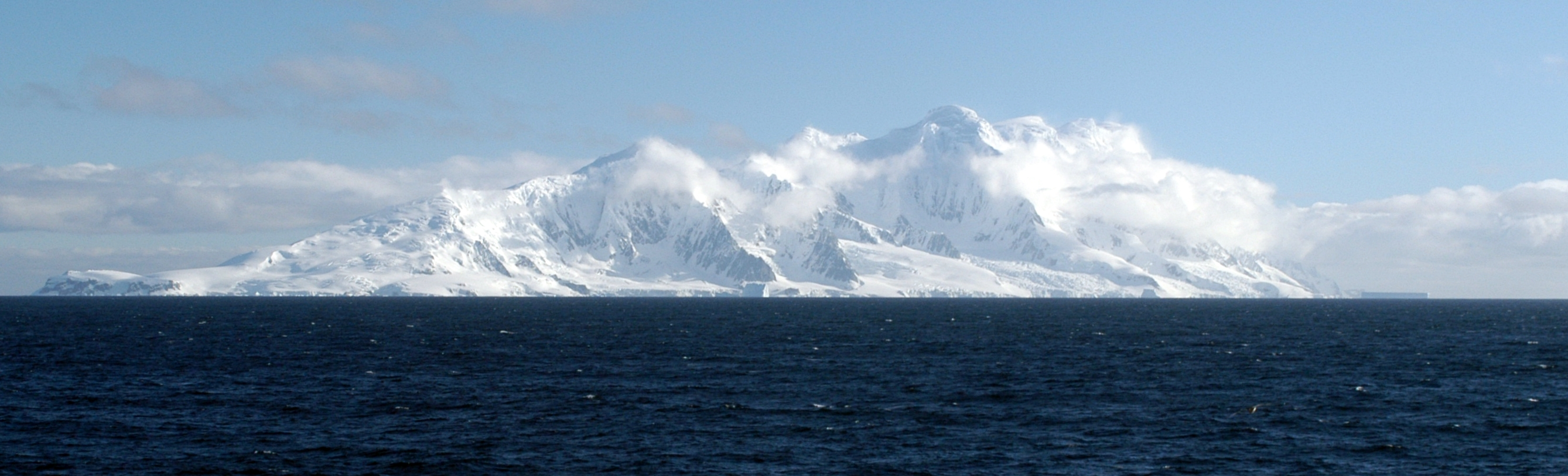 Photo of Smith Island, Antarctica, taken from deck of R/V Lawrence M. Gould